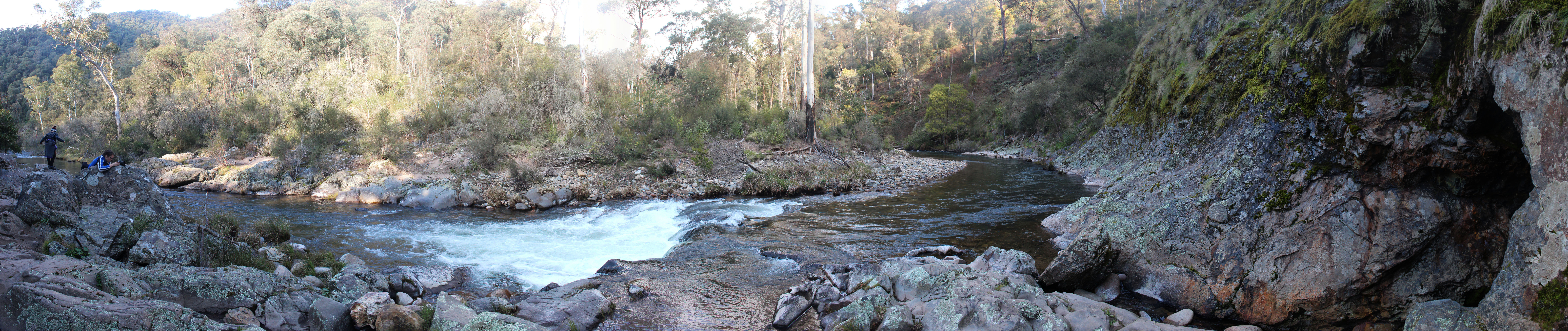 Howqua River, Howqua Hills Historic Park, Victoria, Australia. The opening to a tunnel is on the far right. Gold miners dug this tunnel about 100 metres through the rock of the spur, and then built a water race along the contour of the hills to carry water 4 km to a 63 foot water wheel which powered crushing and milling equipment at the Howqua United gold treatment works at Sheepyard Flat (near the location of Fry's Hut). It was built in 1884, during the Victorian gold rush.